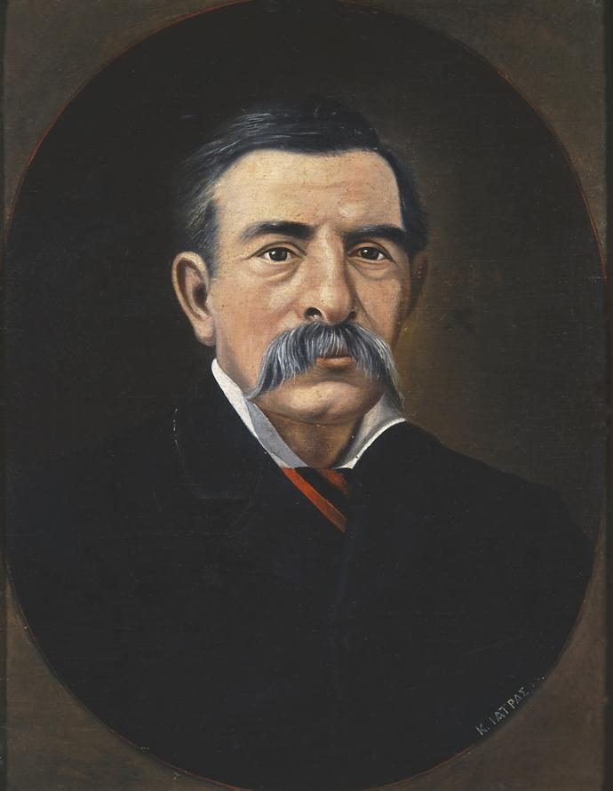 Portrait of man.